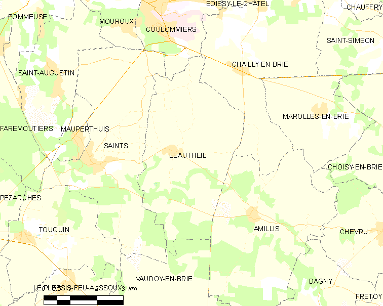 Map of French municipality Beautheil